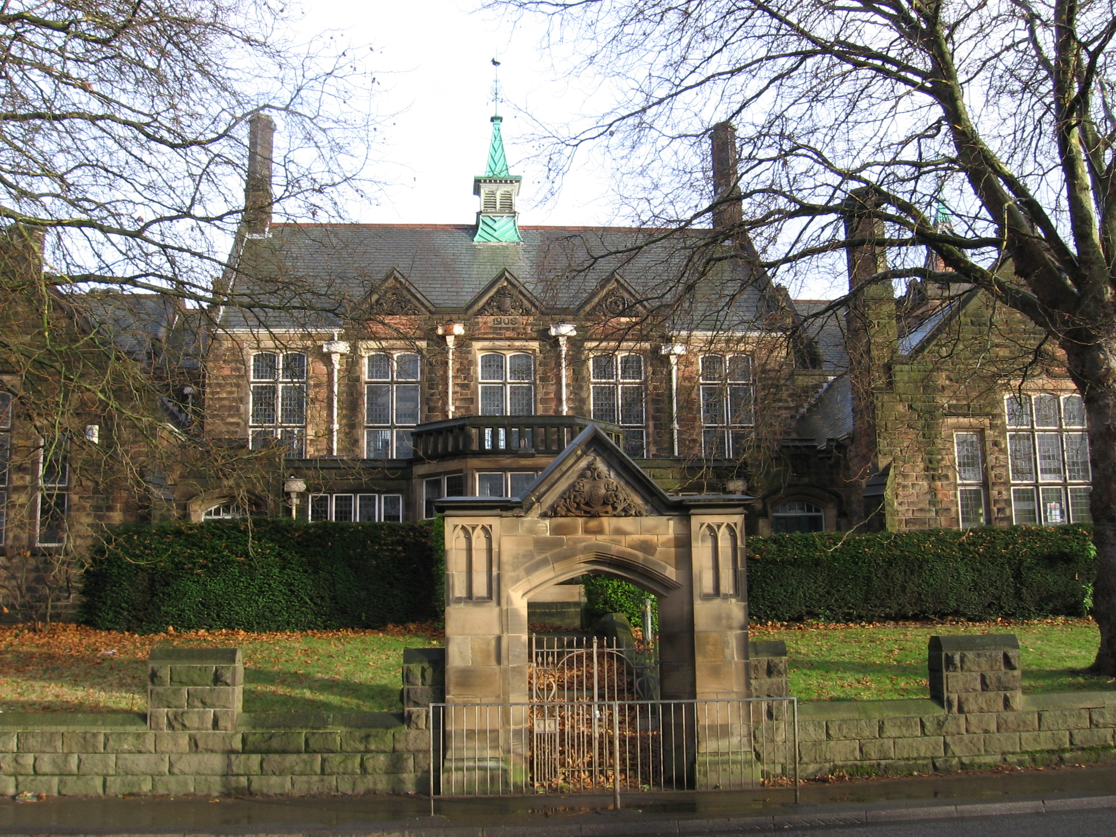 Belper - Herbert Strutt School - Front